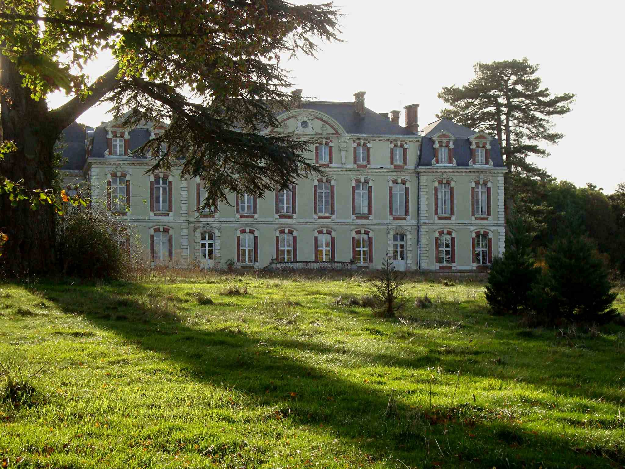 The castle of La Brosse-Montceaux, Seine-et-Marne, France.